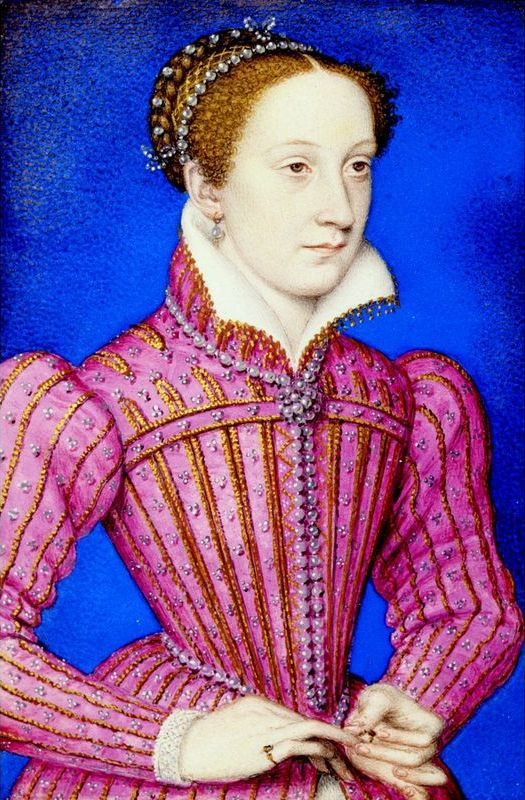 Mary Stuart, Queen of Scots, at about the time of her marriage to the French heir Francis of Valois, the later King Francis II of France, son of King Henry II of France and Catherine de Medici, Royal Collection of Her Majesty Queen Elizabeth II